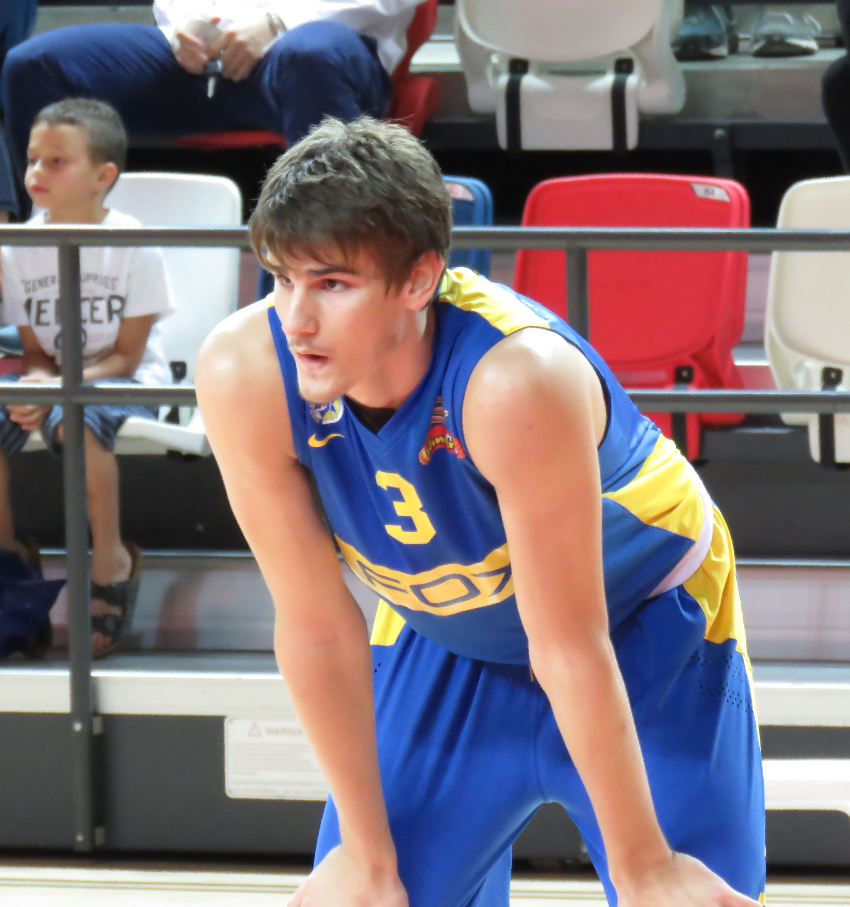 Maccabi Rishon LeZion vs. Maccabi Tel Aviv B.C., 26 September, 2015